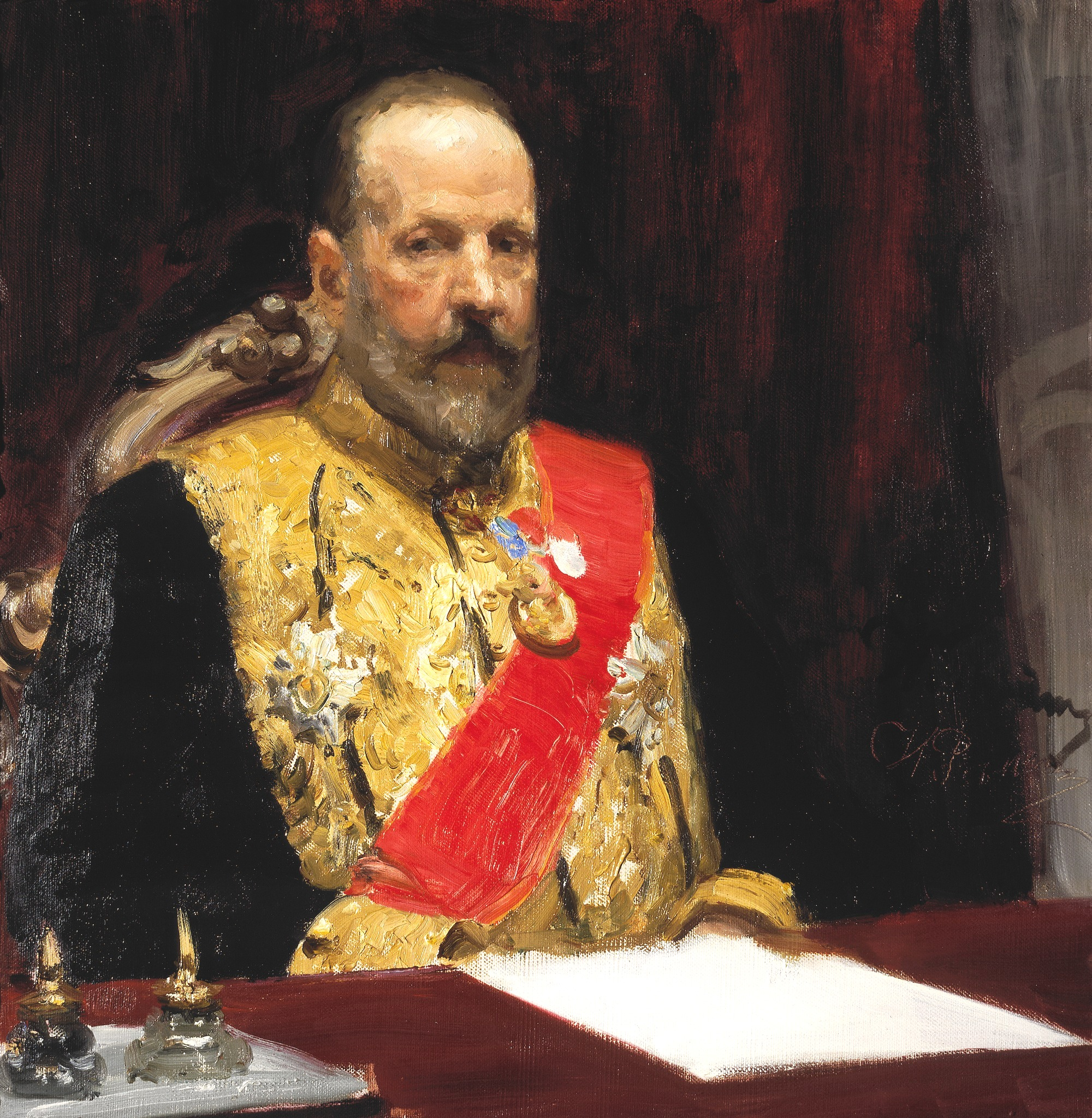 Portrait of Finance Minister and member of State Council Sergei Yulyevich Witte. Study for the picture Formal Session of the State Council